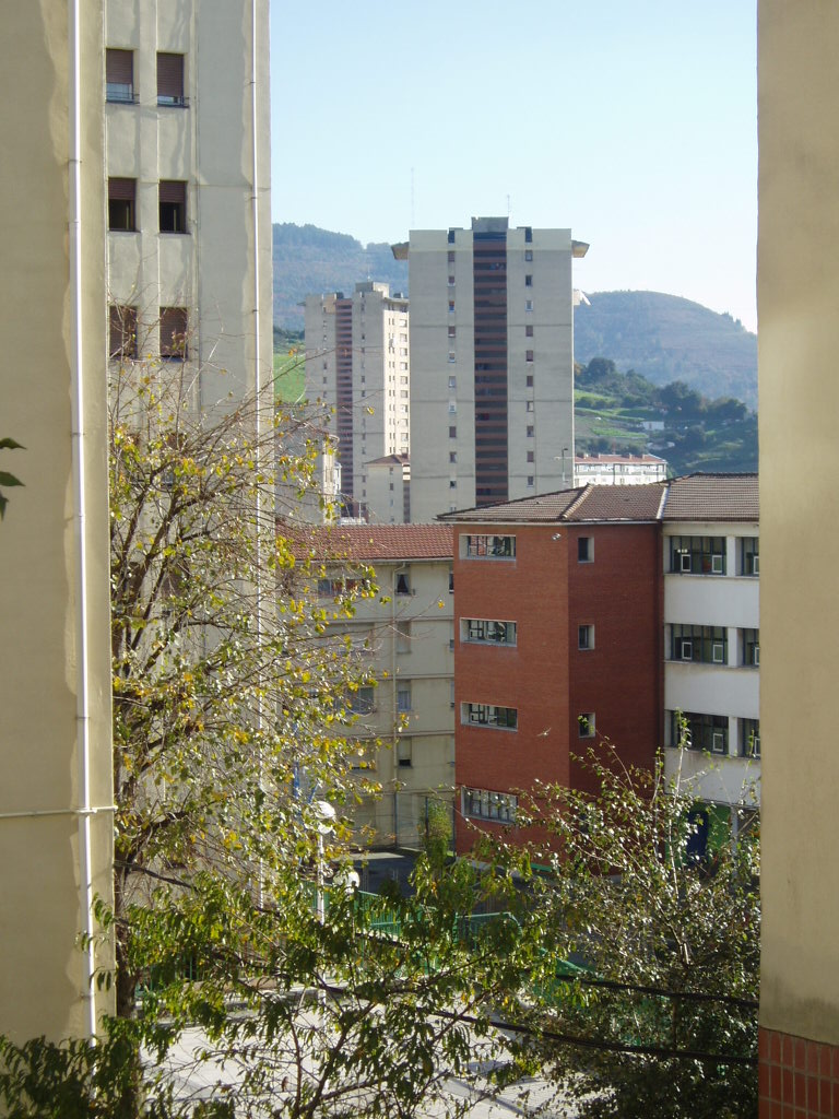 Otxarkoaga (Bilbao).